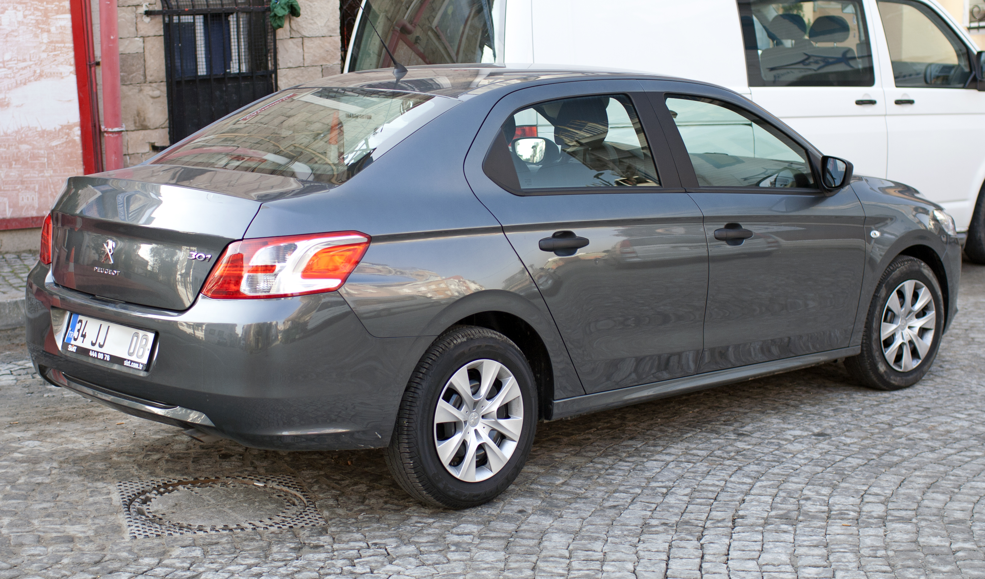 2013 Peugeot 301 sedan in Istanbul. Looks like a rental.